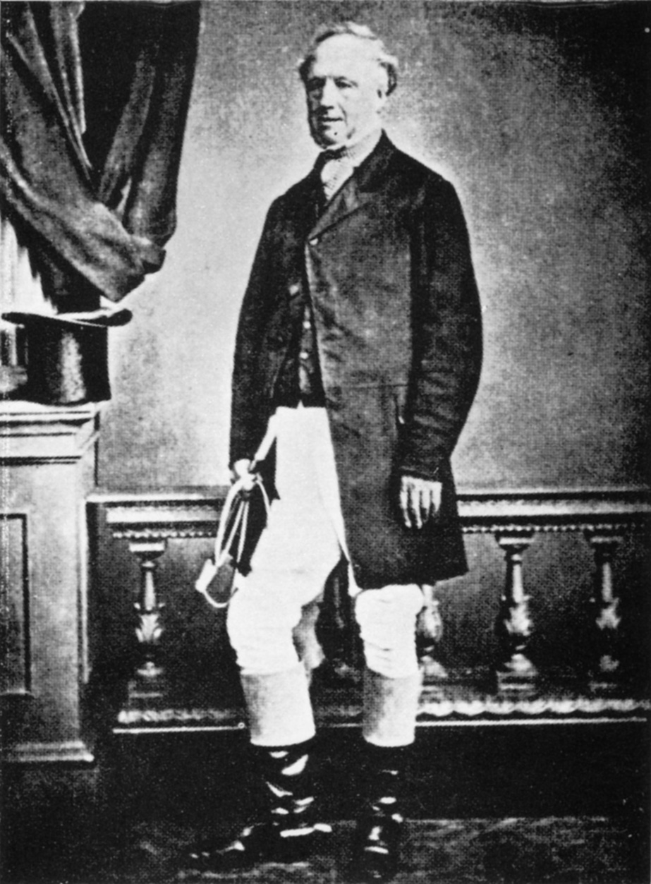 A photo of Parson John Russell (1795 - 1883).